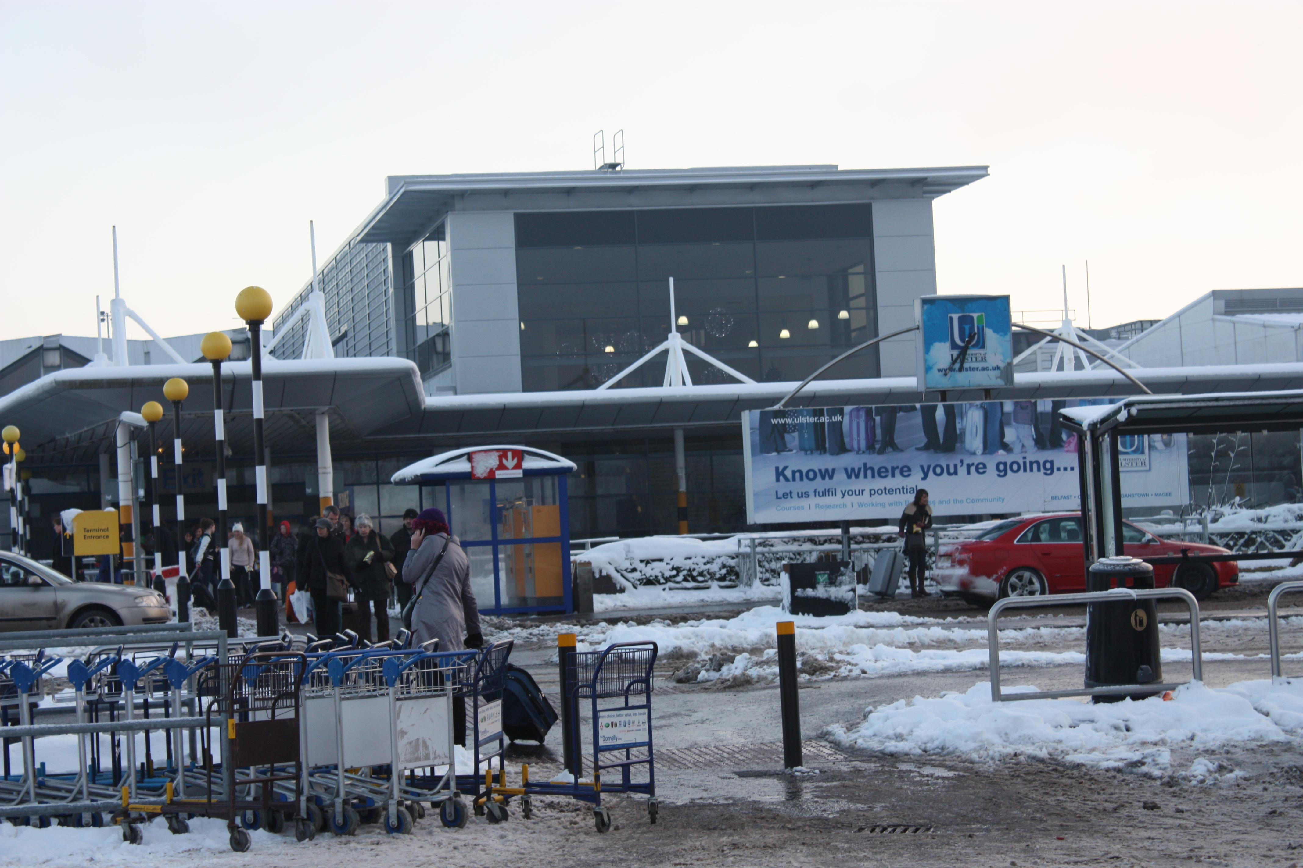 Belfast International Airport, Aldergrove, County Antrim, Northern Ireland, December 2010